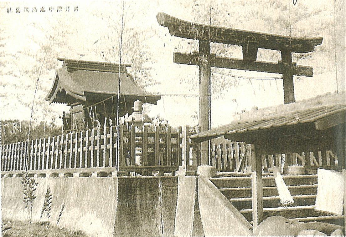 玉島社, a shinto shrine that located on the Lalu Island in the Sun-Moon Lake.